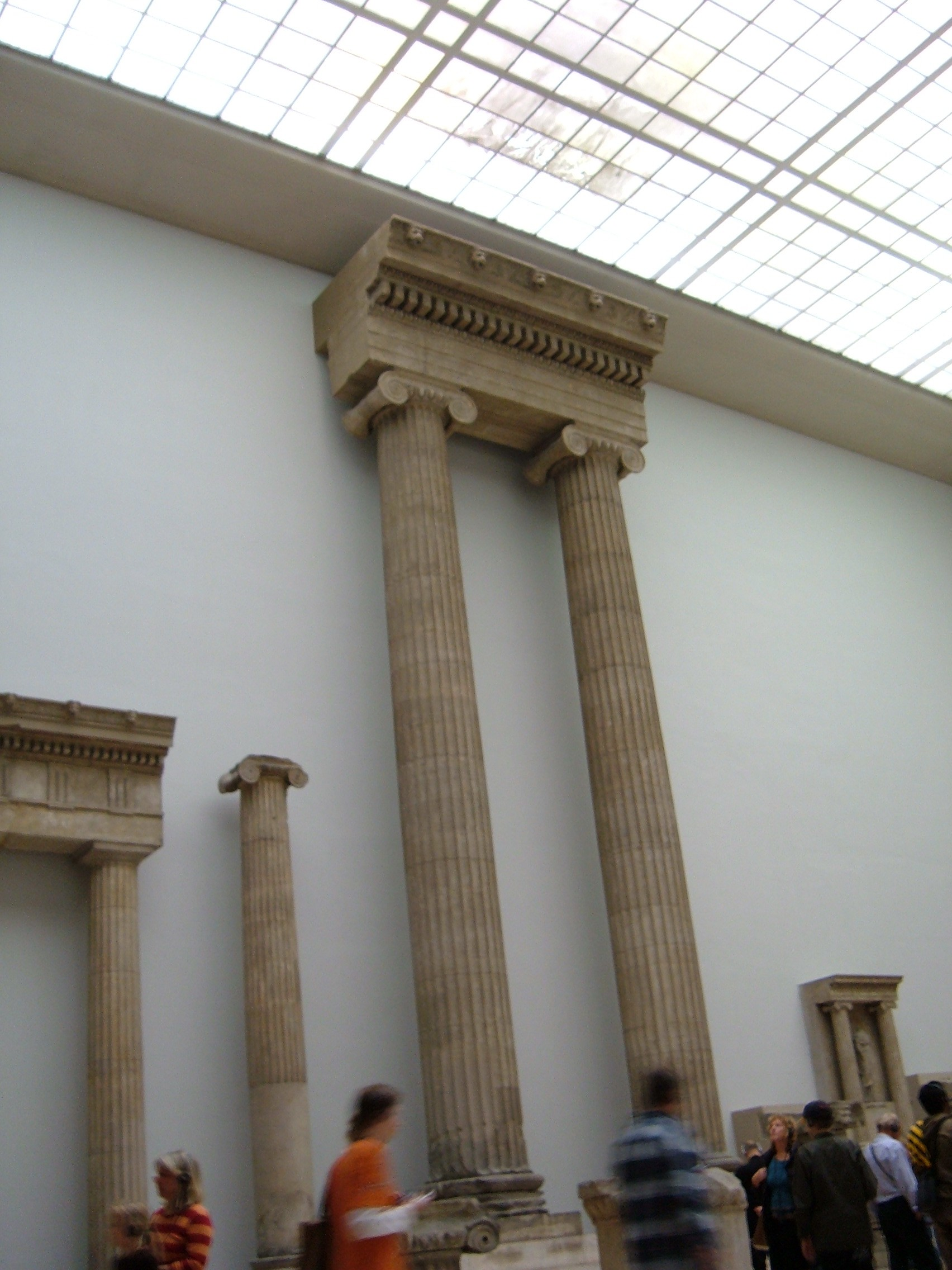 Ancient Greek architecture on display at the Pergamon Museum in Berlin, Germany.